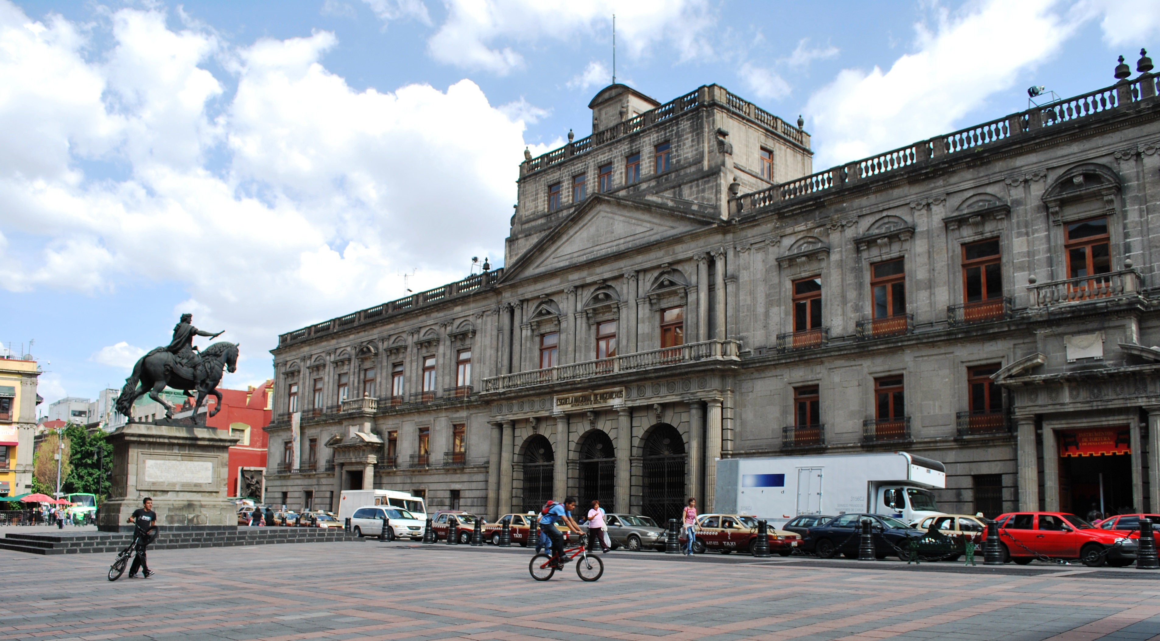 Facade of the Colegio de Mineria museum on Tacuba Street in the historic center of Mexico City